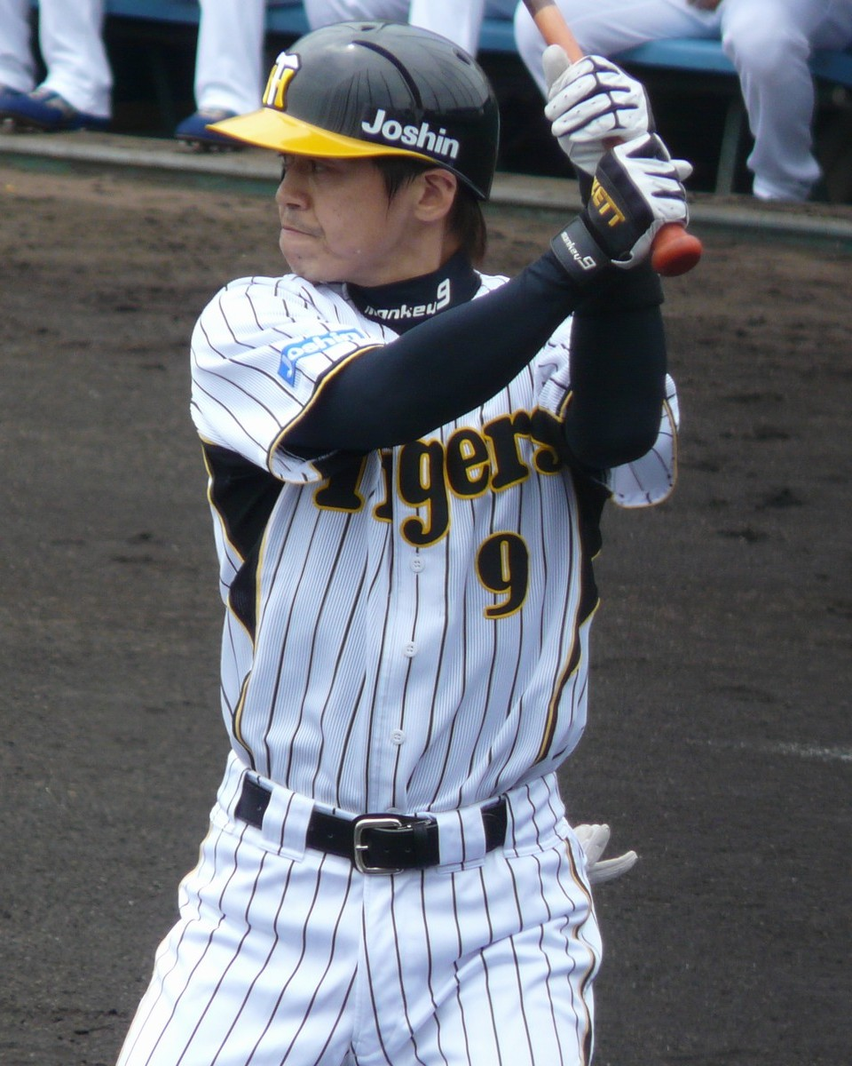 Atsushi Fujimoto, infielder of the Hanshin Tigers, at Hanshin Naruohama Baseball Ground.